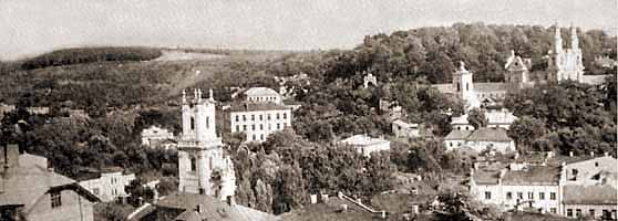 An old picture of Buchach from the city site.